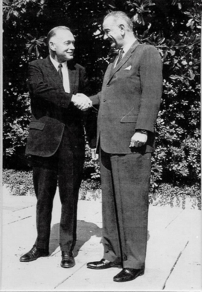 President Lyndon Johnson meets with Donald Magnuson, ca. 1964.